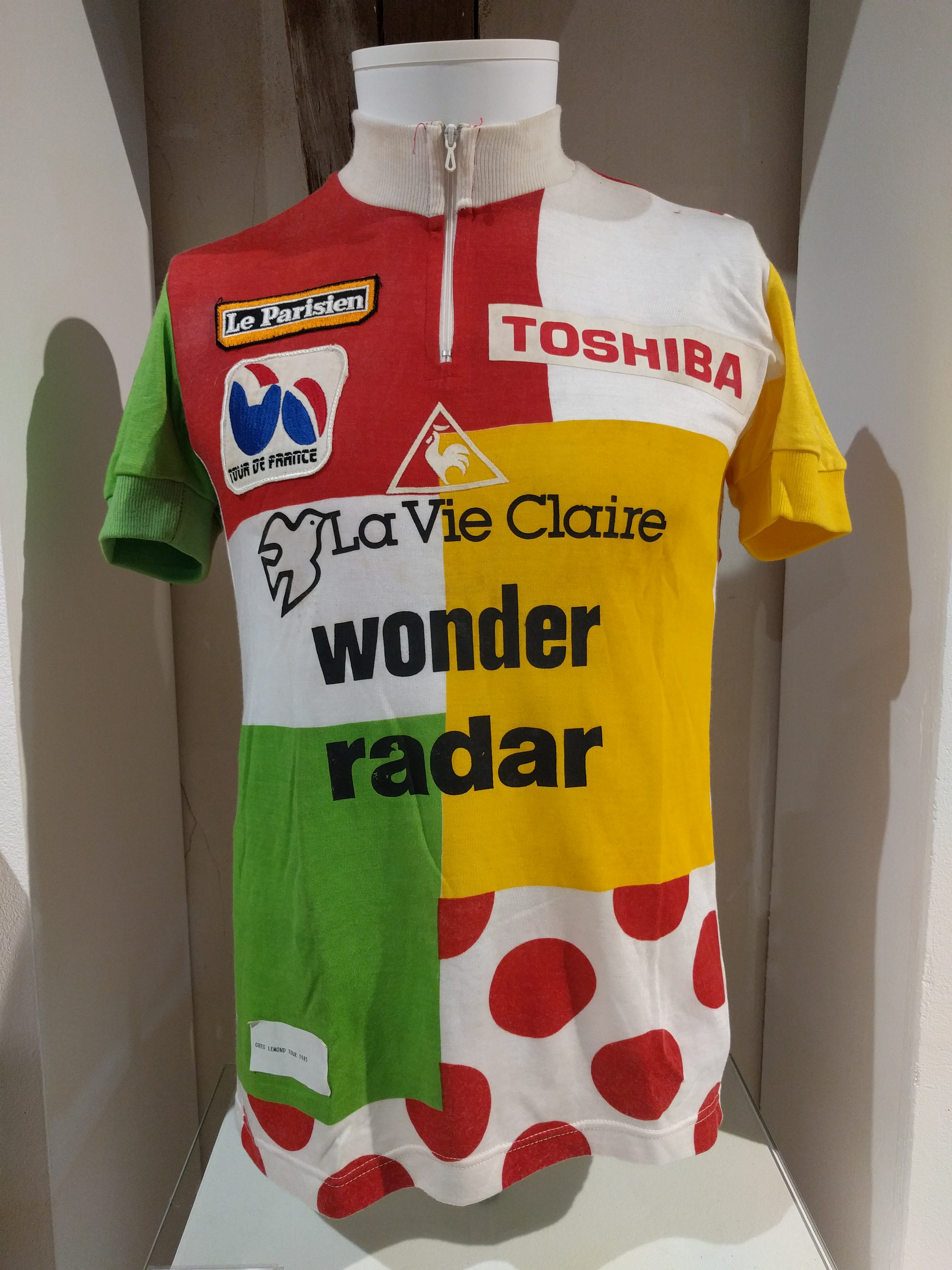 Greg LeMond's Combinated jersey, Tour de France 1985